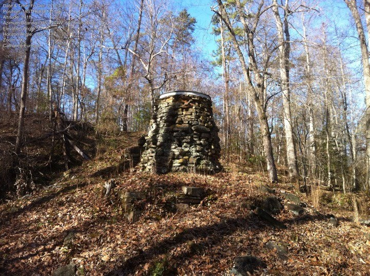 Remnants of Catharine Furnace on the Chancellorsville Battlefield photographed in 2011.